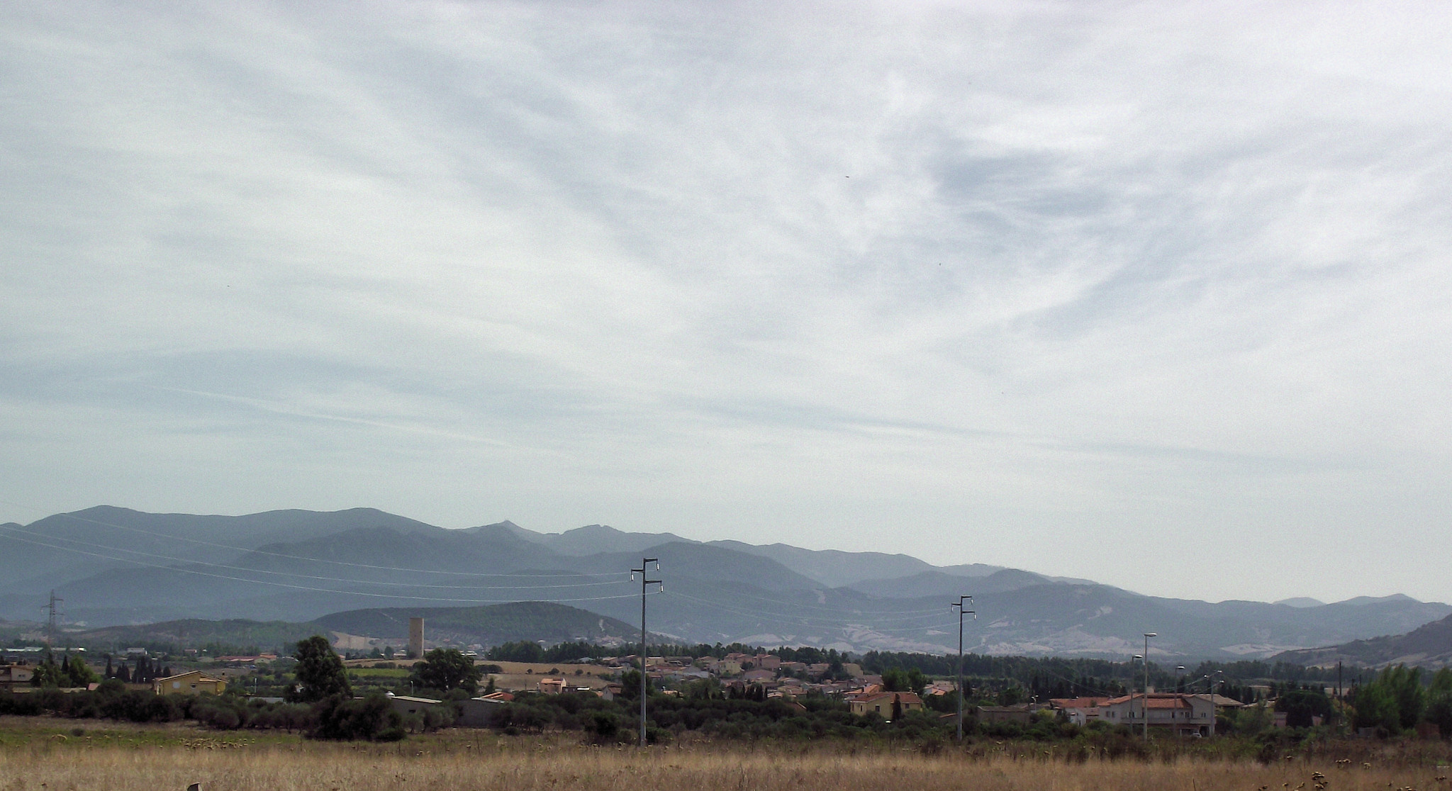 The town of Villaperuccio, in Sardinia, Italy, seen from the SP 79